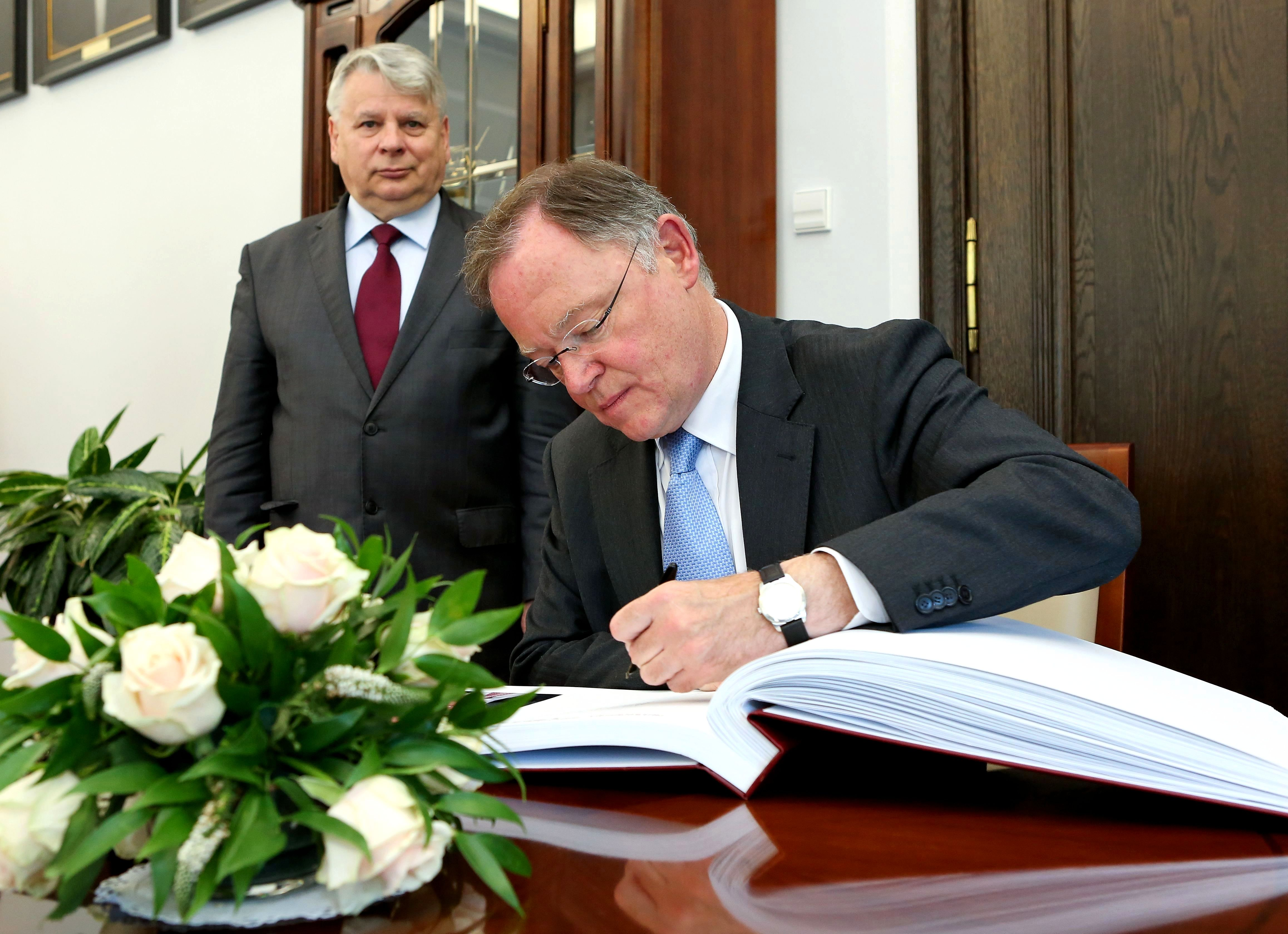 President of the German Bundesrat Stephan Weil in the Polish Senate